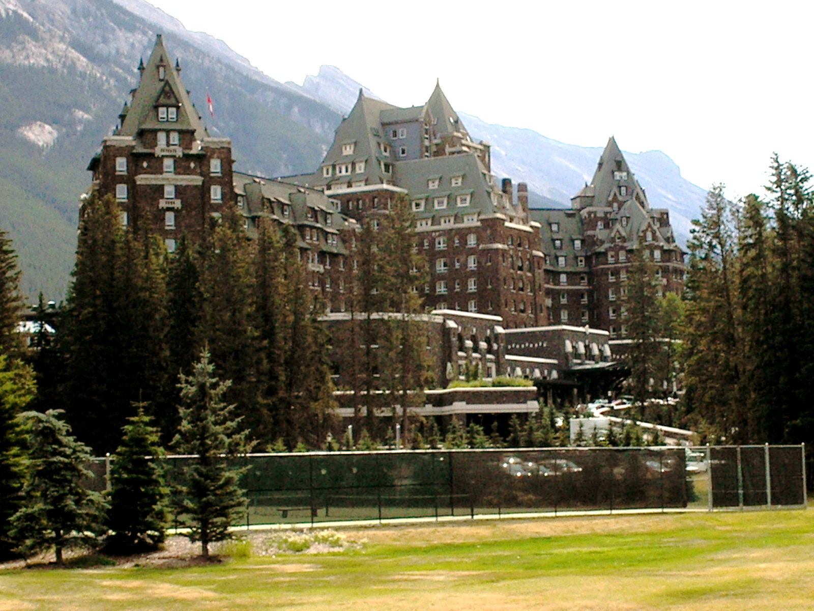 Fairmont Banff Springs Hotel, Banff, Alberta, Canada. Very famous hotel, built by order of William Van Horne, general manager of Canadian Pacific Railway, from 1886 to 1888, Very popular hotel for weddings and honeymoons and for very well heeled tourists.